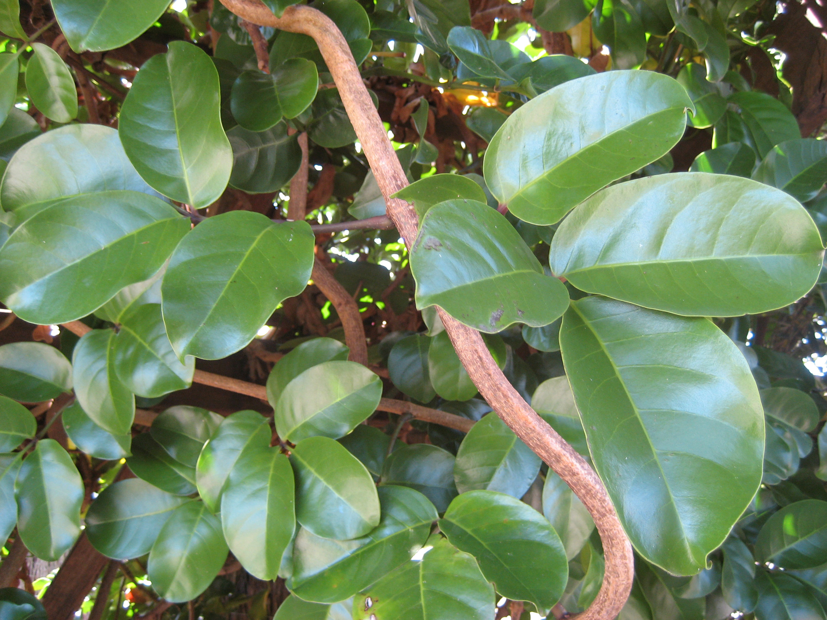 Tecomanthe speciosa is a rampant forest vine with large, thick, glossy leaves. Plant growing in Auckland, New Zealand.